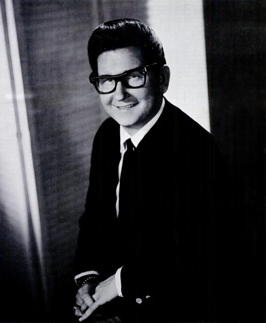 Trade ad for Roy Orbison's single "Oh, Pretty Woman". To better adapt it to his respective Wikipedia article, the ad was cropped and cleaned in a graphics editing program. The original can be viewed at the source below.